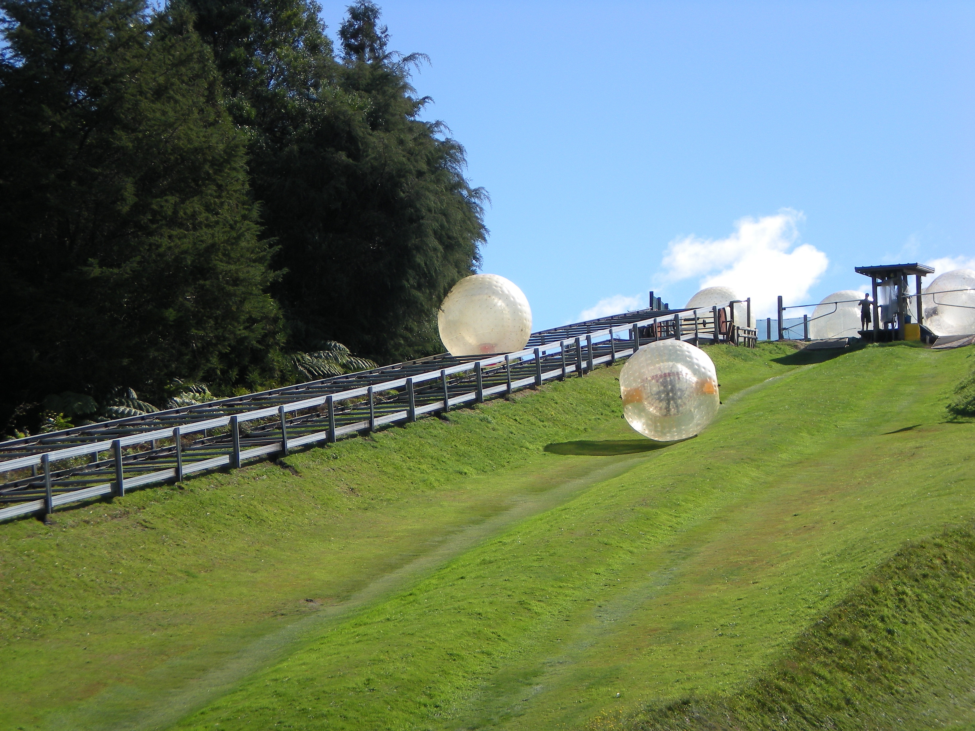 Sphereing, also known as globe-riding and Zorbing, is a recreational activity in which one, two or three people ride inside the inner wall of a plastic ball that rolls on the ground. To cushion the rider from bumps, there is about half a meter (about two feet) of air between the inner and outer walls of the ball. Some balls have straps to hold the rider(s) in place and some leave the rider(s) free so that they can influence the ball's movement or be tossed around freely by the ball's rolling and bouncing, optionally with a sloshing amount of water inside. People concerned about their balance, safety or other needs may enjoy the activity on ground that is either level or only slightly rolling. There are videos of rides at the Zorb website and at YouTube.